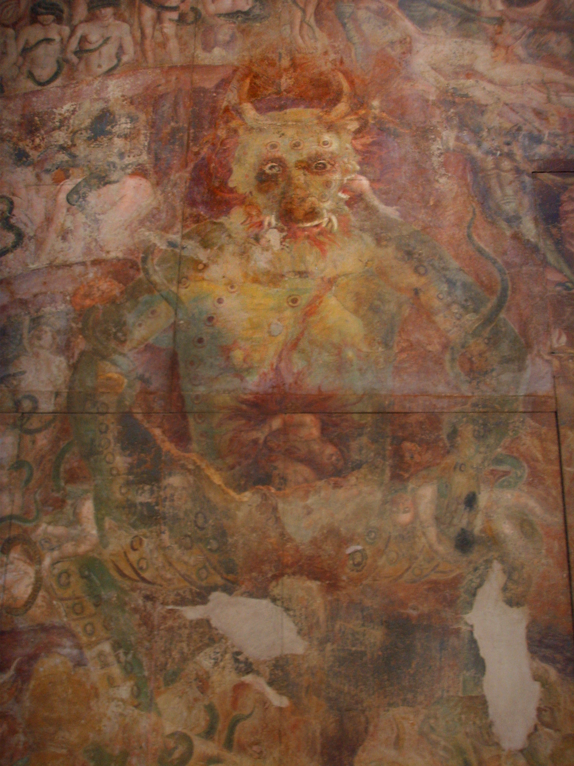 Bonamico di Martino da Firenze known as Buffalmacco: Giudizio Universale e Inferno, fresco 1336-1341, Hell (detail).